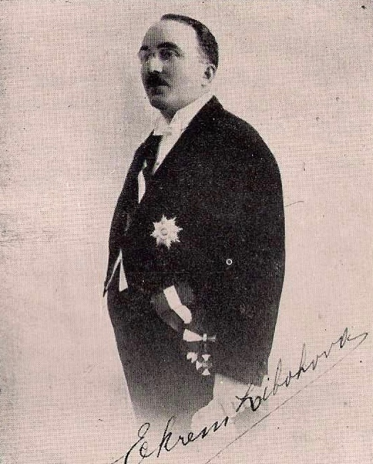 Eqrem Libohova served as Prime Minister of Albania in 1943